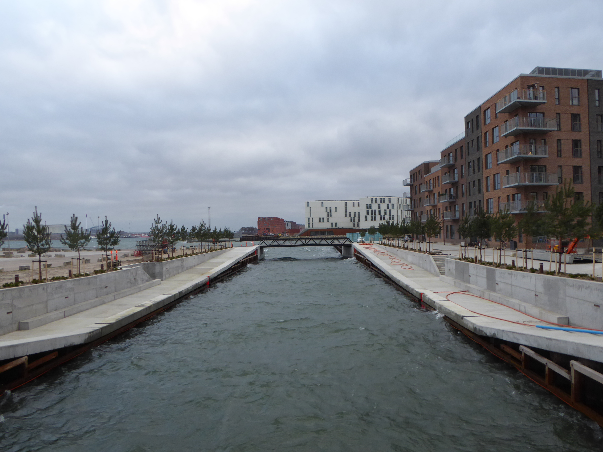 The canal Redmolenkanalen in Nordhavn in Copenhagen. At the left the street Mariehamngade on the island Redmolen and at the right Murmanskgade in Århusgadekvarteret.